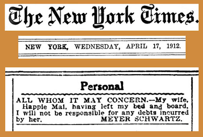 Husband's personal classified newspaper ad disclaiming responsibility for debts incurred by wife (published in The New York Times April 17, 1912)